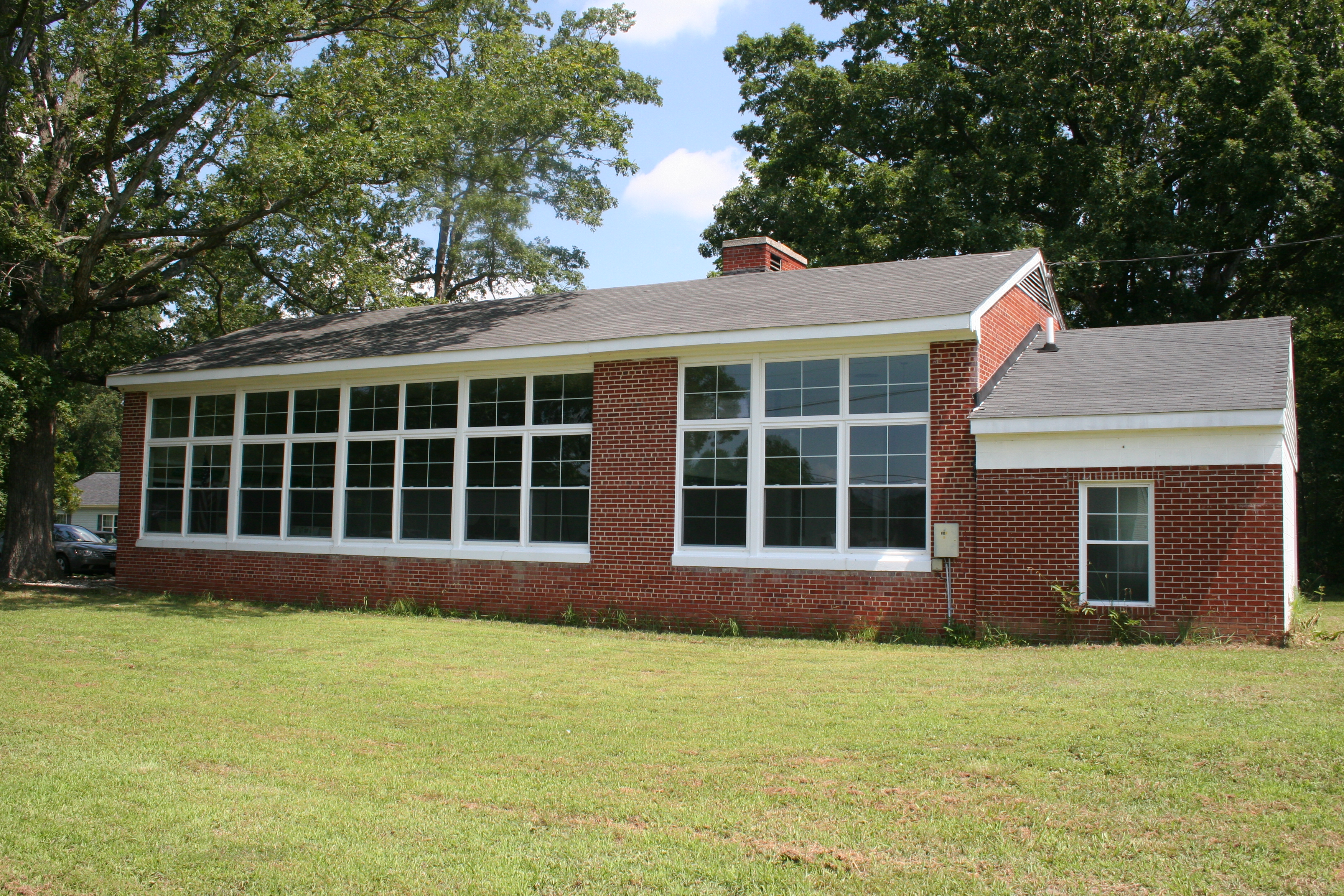 Former School for Native Americans